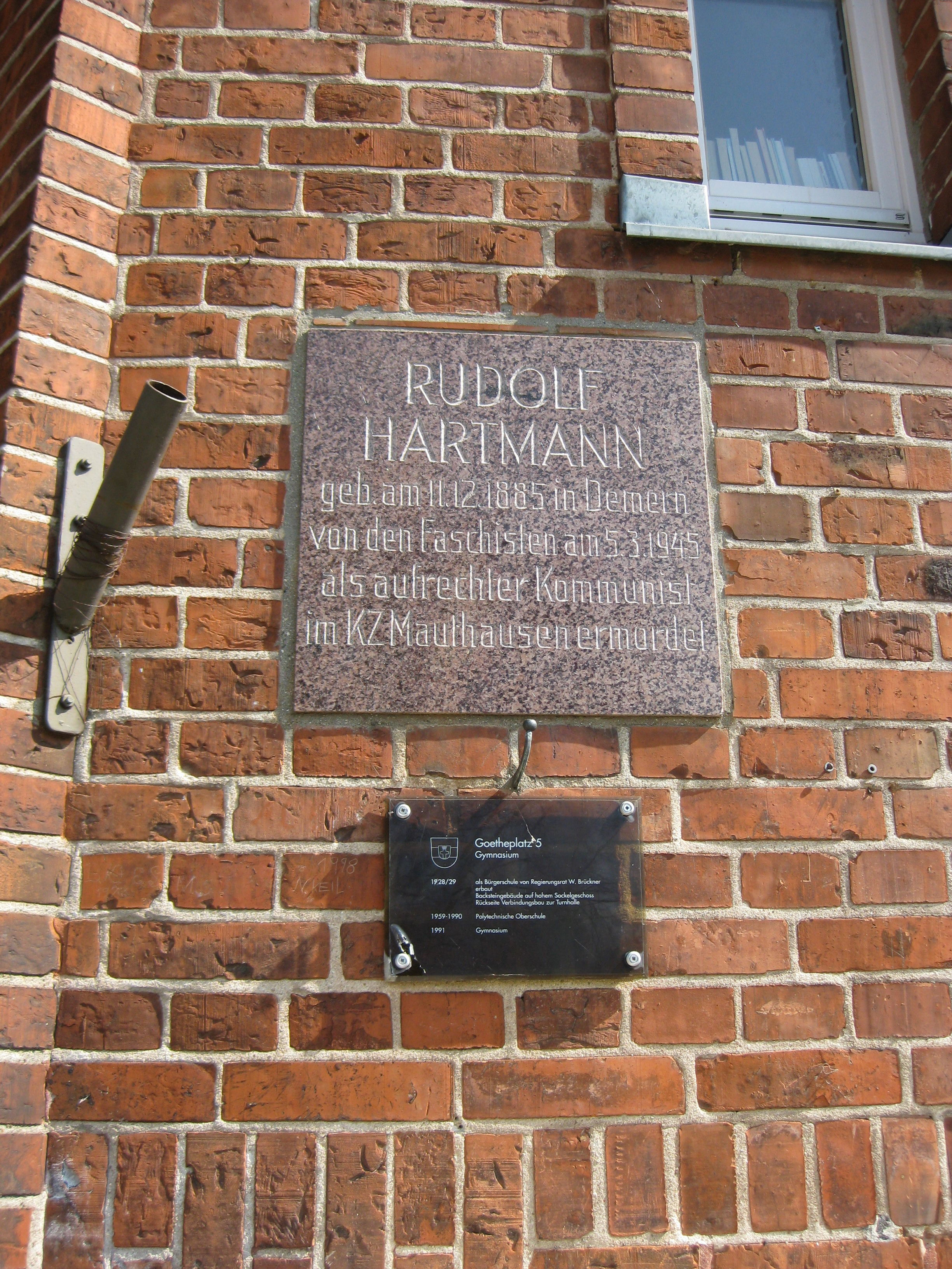 Memorial plates at the entrance of Barlach Gymnasium (High school) in Schönberg, Meckl.